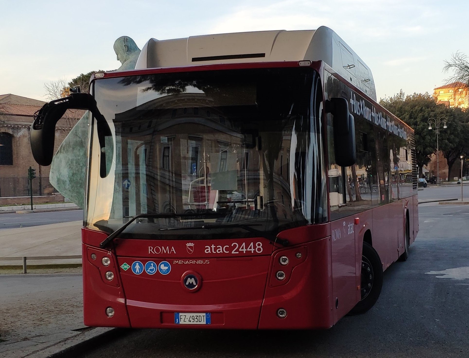 An ATAC Menarinibus Citymood 12 (Nr. 2448) out of service in piazza dei Cinquecento in Rome